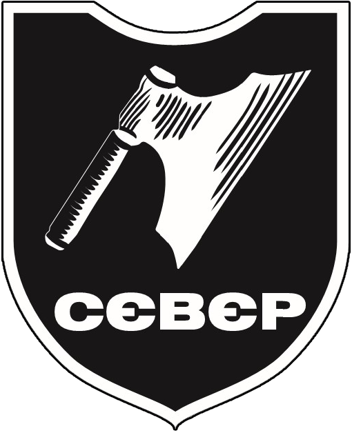 Sever battalion emblem (Ukraine)